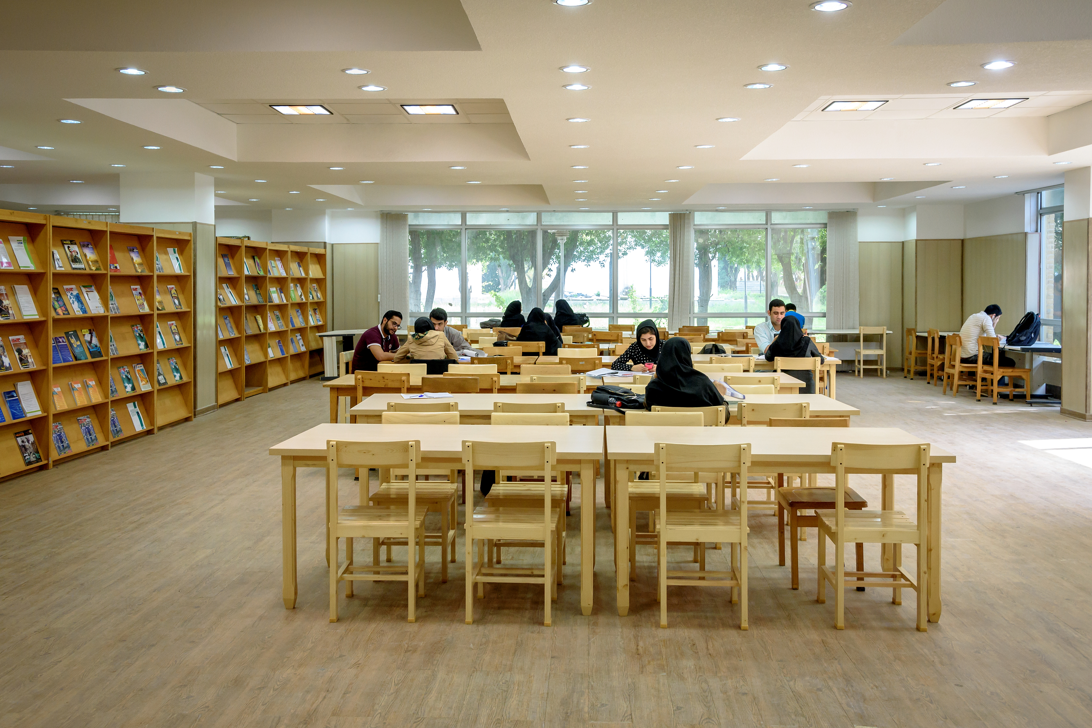 first floor of library at Persian Gulf University 2018